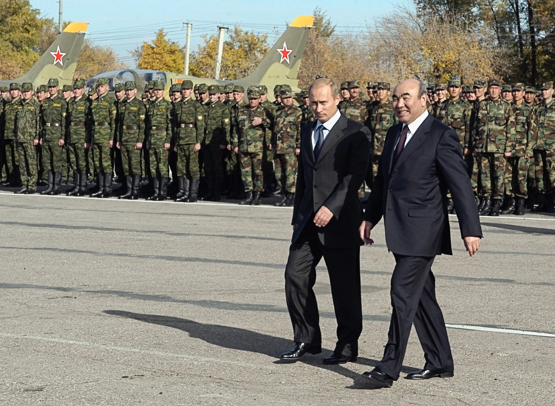 Russian President Putin with Kyrgyz President Askar Akayev during the inauguration ceremony at Kant Air Base.